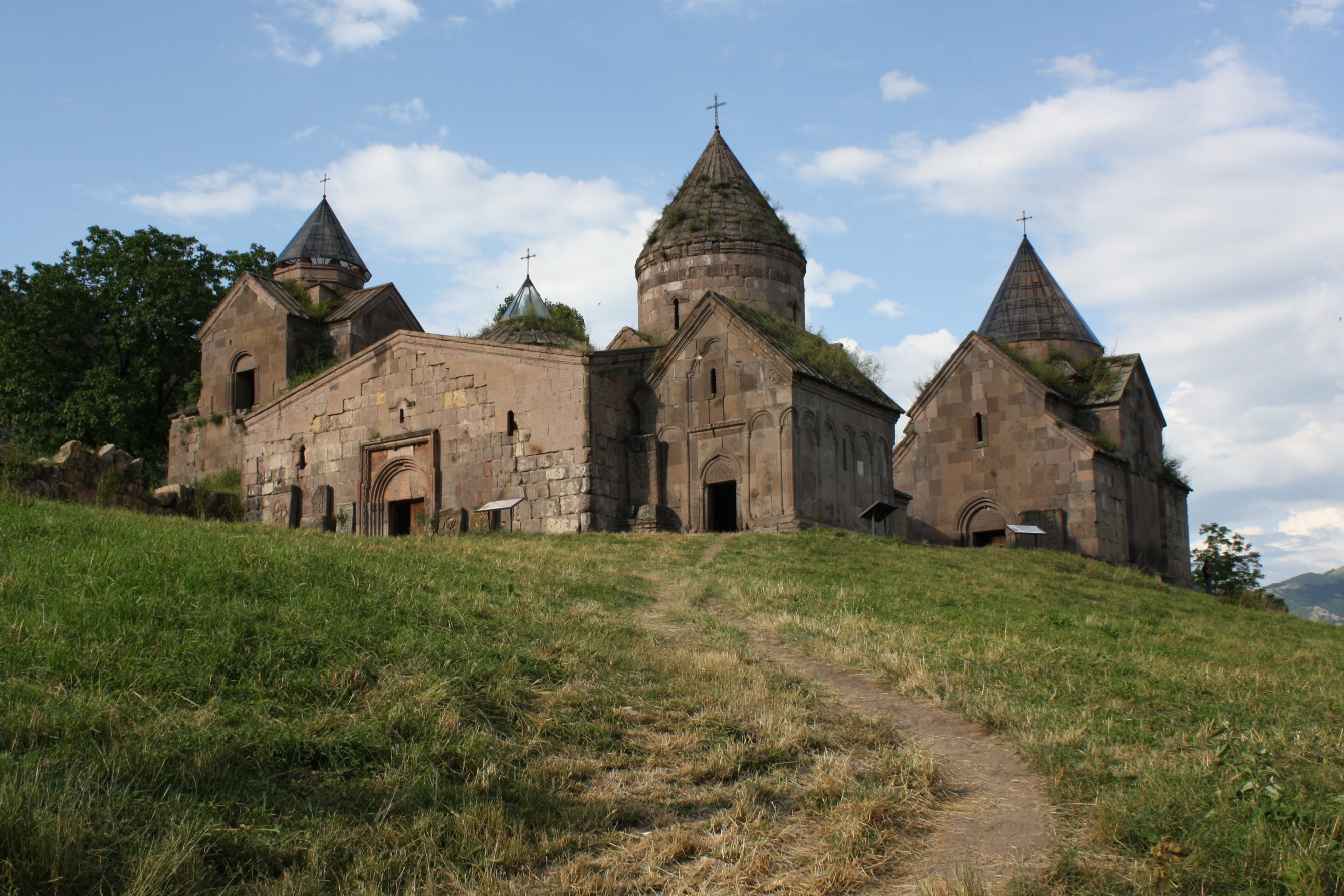 Goshavank monastery, Armenia